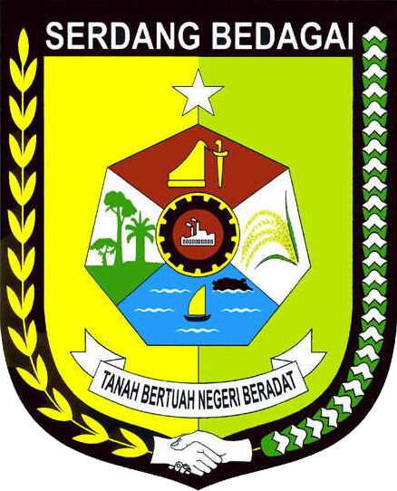 Coat of Arms, or Symbol (Lambang) of Kabupaten (Regency) of Serdang Bedagai in North Sumatra Province, Indonesia